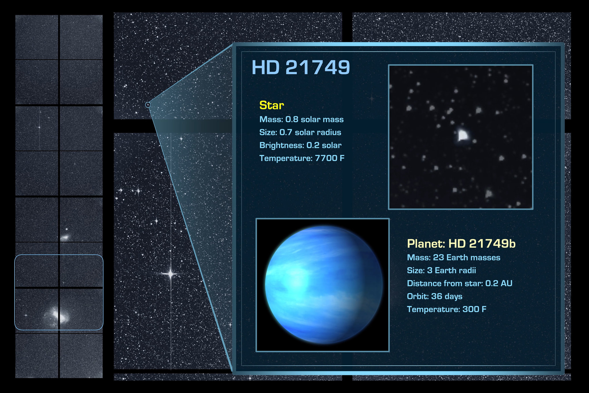 HD 21749 Star Exoplanet System[1] Scientists at M.I.T. and elsewhere confirmed a new planet, HD 21749b, which orbits a star about the size of the sun and is about 53 light years away. References ↑ Overbye, Dennis (7 January 2019). "Another Day, Another Exoplanet: NASA’s TESS Keeps Counting More". The New York Tmes. Retrieved on 8 January 2019.